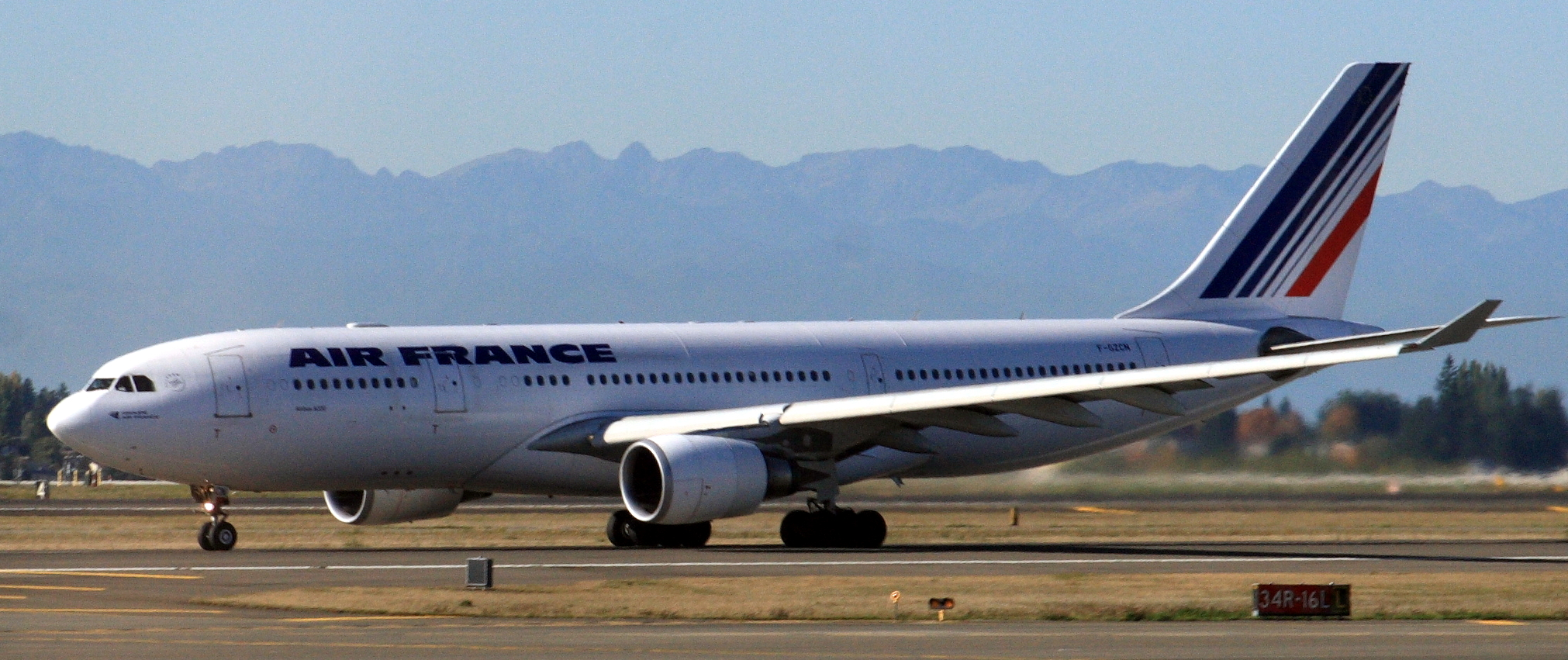 I took this photo at SeaTac Airport in October 2008 while waiting for a flight back East. (cropped)